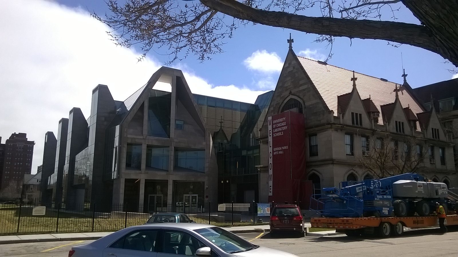 University of Chicago Labortory Schools